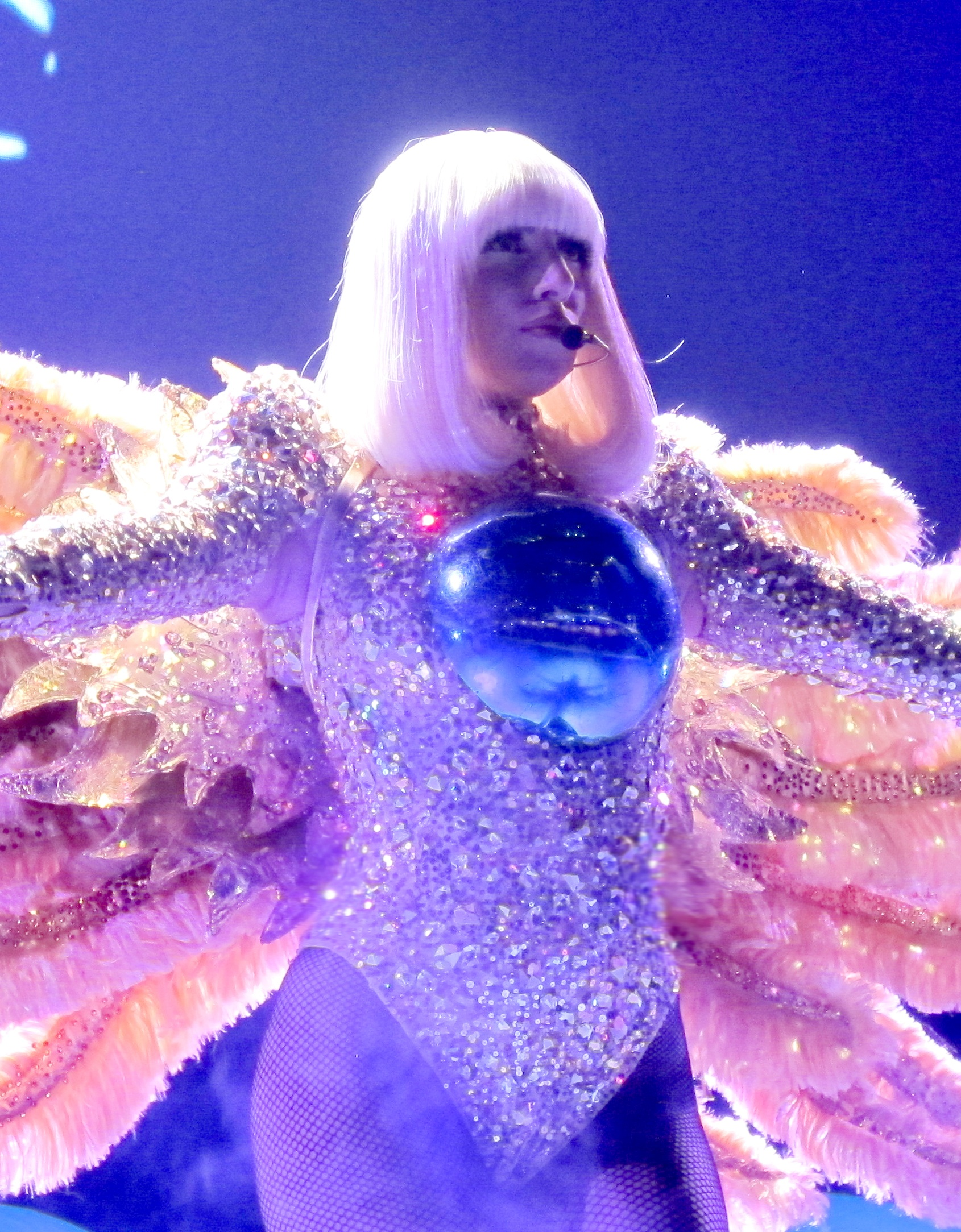 Gaga on ArtRave, cropped of original